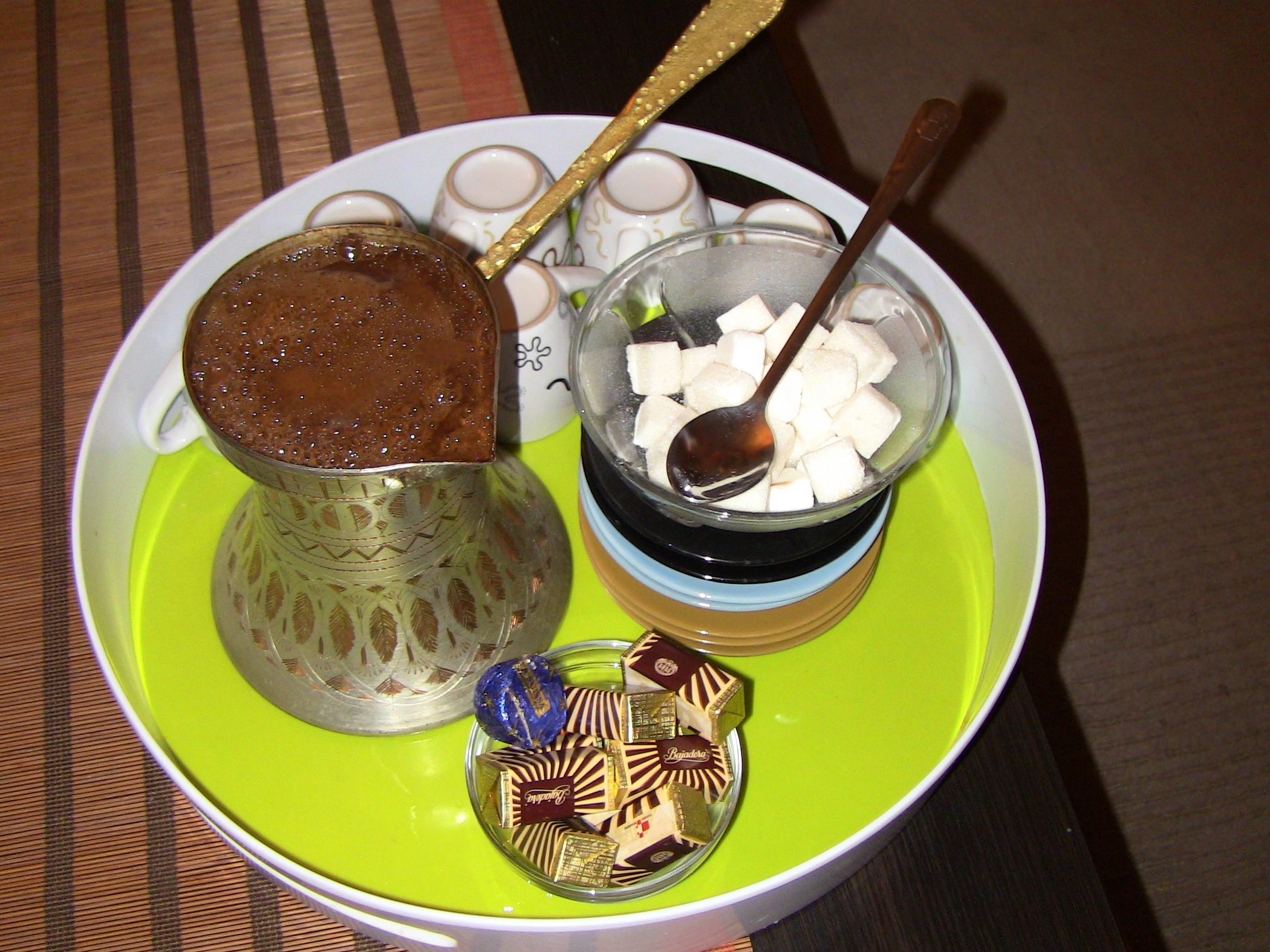 Bosnian coffee and Croatian Bajadera